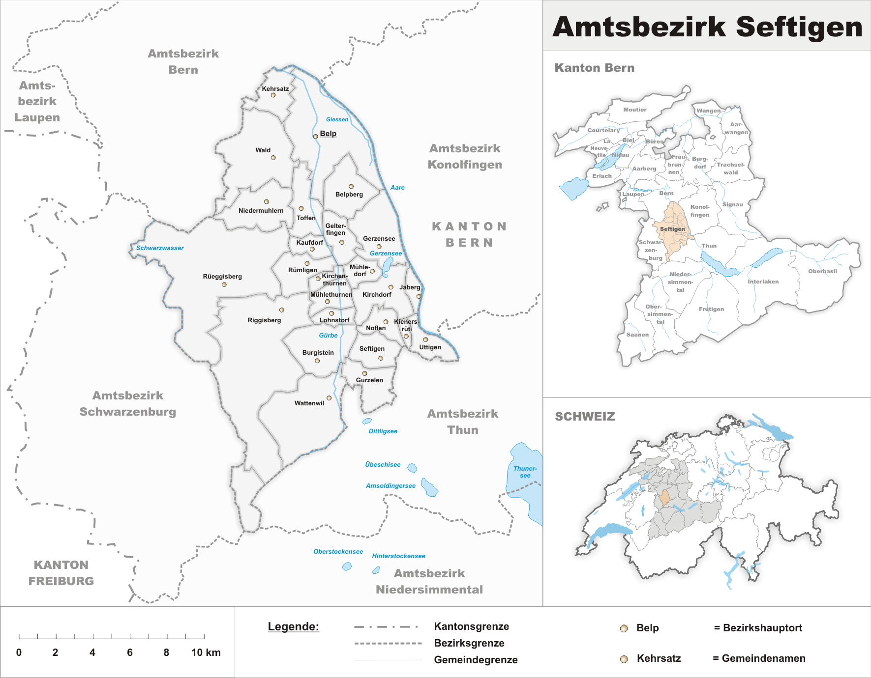 Municipalities in the district of Seftigen